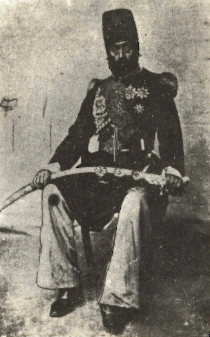 azizkhan mukri